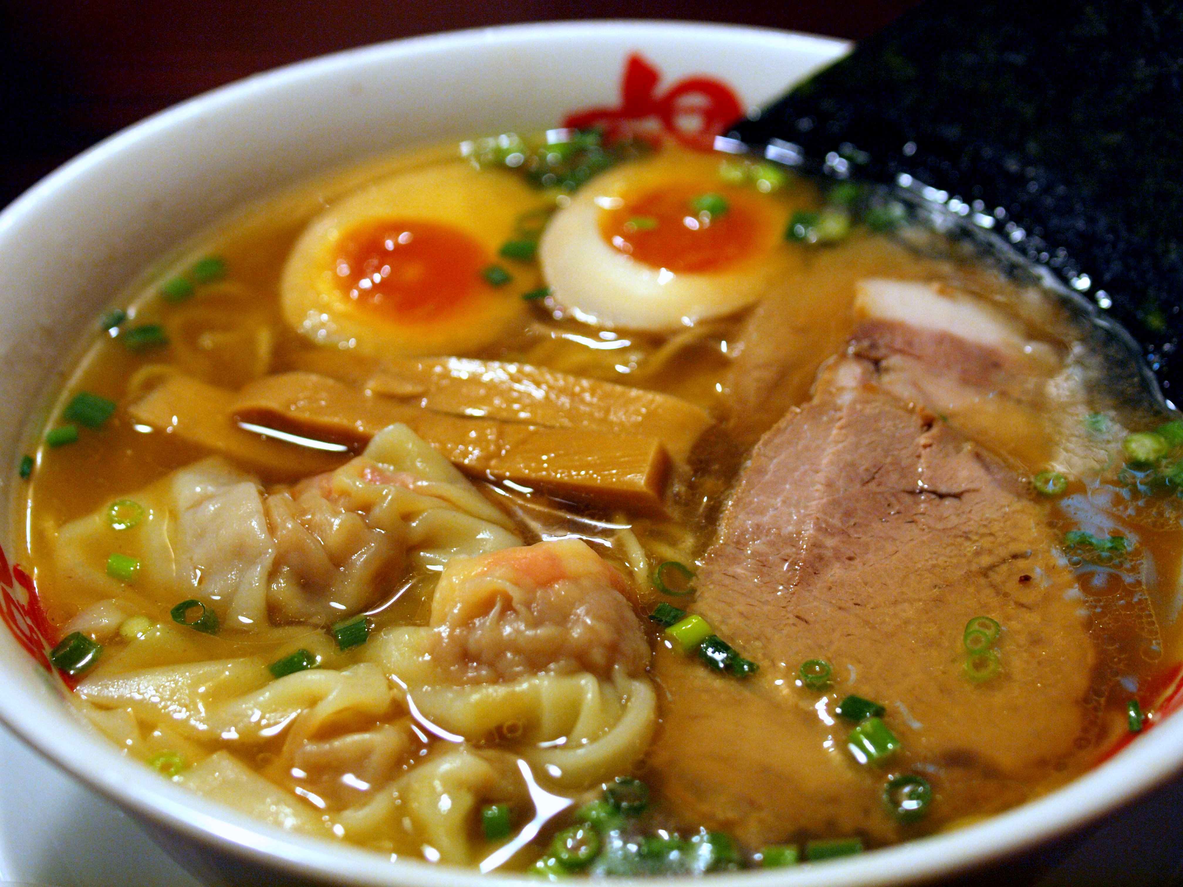 Zenbuiri Shōyu Aji Ramen from Honkamado in Sendai, Miyagi, Japan.